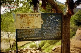 One of the Ever First Coloured Photoraph of the Rock of Aornos (Shot on 17 July 1986 CE) by Asst. Prof. Dr. Taskeen Ahmad Khan and then Uploaded by him for the Ever First Time at the various Websites over the Internet/World Wide Web on 09.09.2009 CE and later on. It is loctated in the Shangla District, Khyber Pakhtun Khwa (KPK) (previously the North-West Frontier Province), Pakistan. There is mention of the Rock of Aornos in the book entitled Anabasis Alexandri (Expedition of Alexander) written by Lucius Flavius Arrianus (Arrian) (A Greek who was a Prefect or Legate (Governor) of Cappadocia under the Caesar Publius Aelius Traianus Hardianus Augustus of the Roman Empire) who lived to circa 160 CE. This, and the fixing of the Site of Aornos, is the theme of some fascinating expolorations undertaken by Marc Aurel Stein (Ethnic Hungarian British Archaeologist) - includings its Ever First Black and White Photographs by him (Later on Knightened as Sir Marc Aurel Stein). The stir and the thrill comes, one thinks, from a sudden discovery that, while no local record or memory remains of those far-off events, it is still possible from the tactical accounts rendered by Arrian and the others to recognise on the ground today some of the actual strongholds which fell to the arms of the Alexander the Great. In so doing one can see again the heavy-armed hoplites of the Macedonian's phalanx and almost hear the headlong rush of his cavalry carrying his standard up the broad and beautiful valley of Swat, KPK, Pakistan